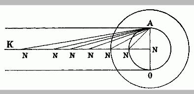 Comparison of the size of two celestial bodies. Image from: Giordano Bruno, "La cena de le ceneri", 1584.